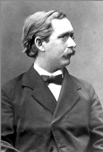 The german mathematicians Ludwig Burmester (1840-1927).